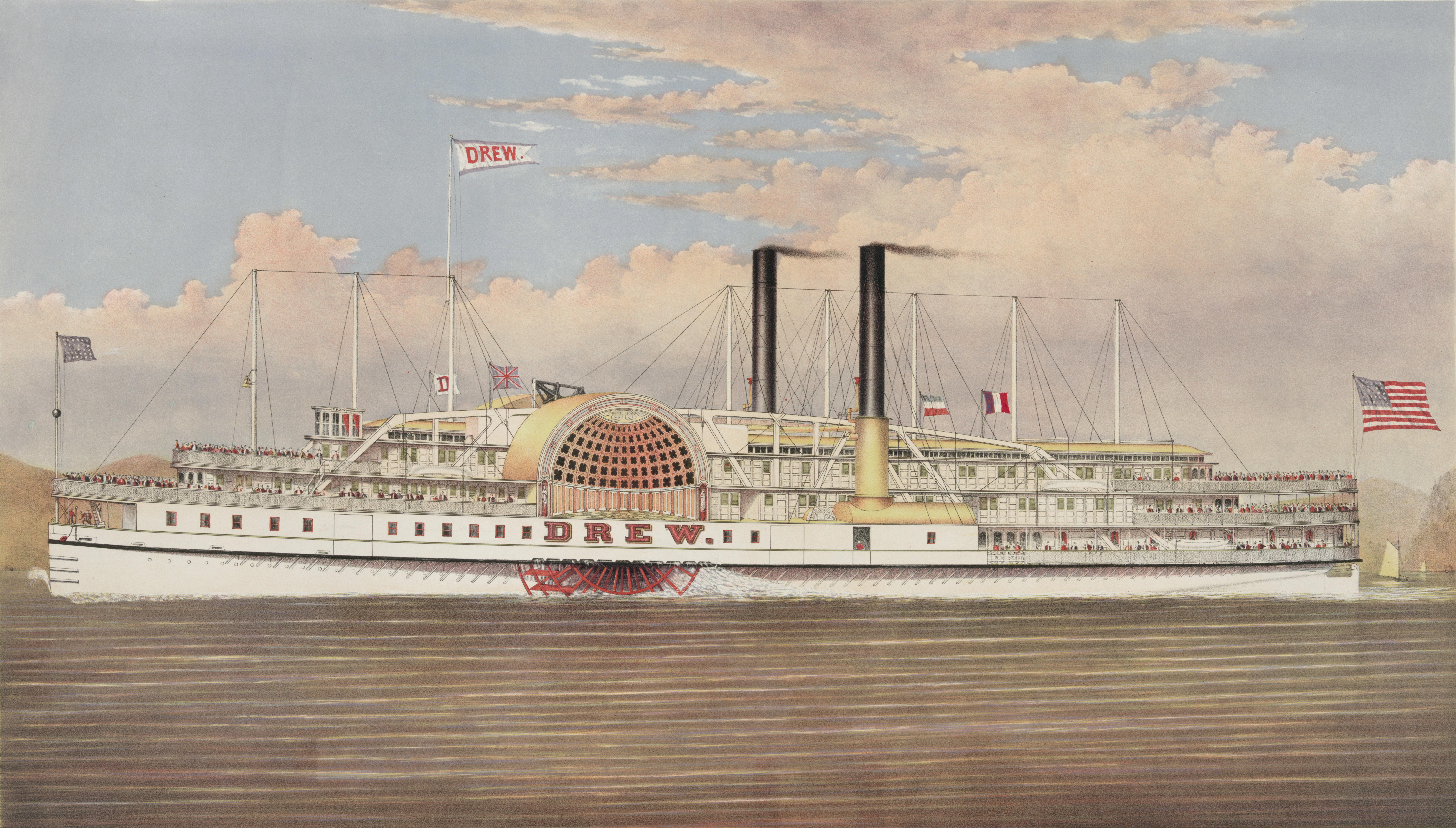 The Hudson River "palace" steamer Drew, built in 1865.